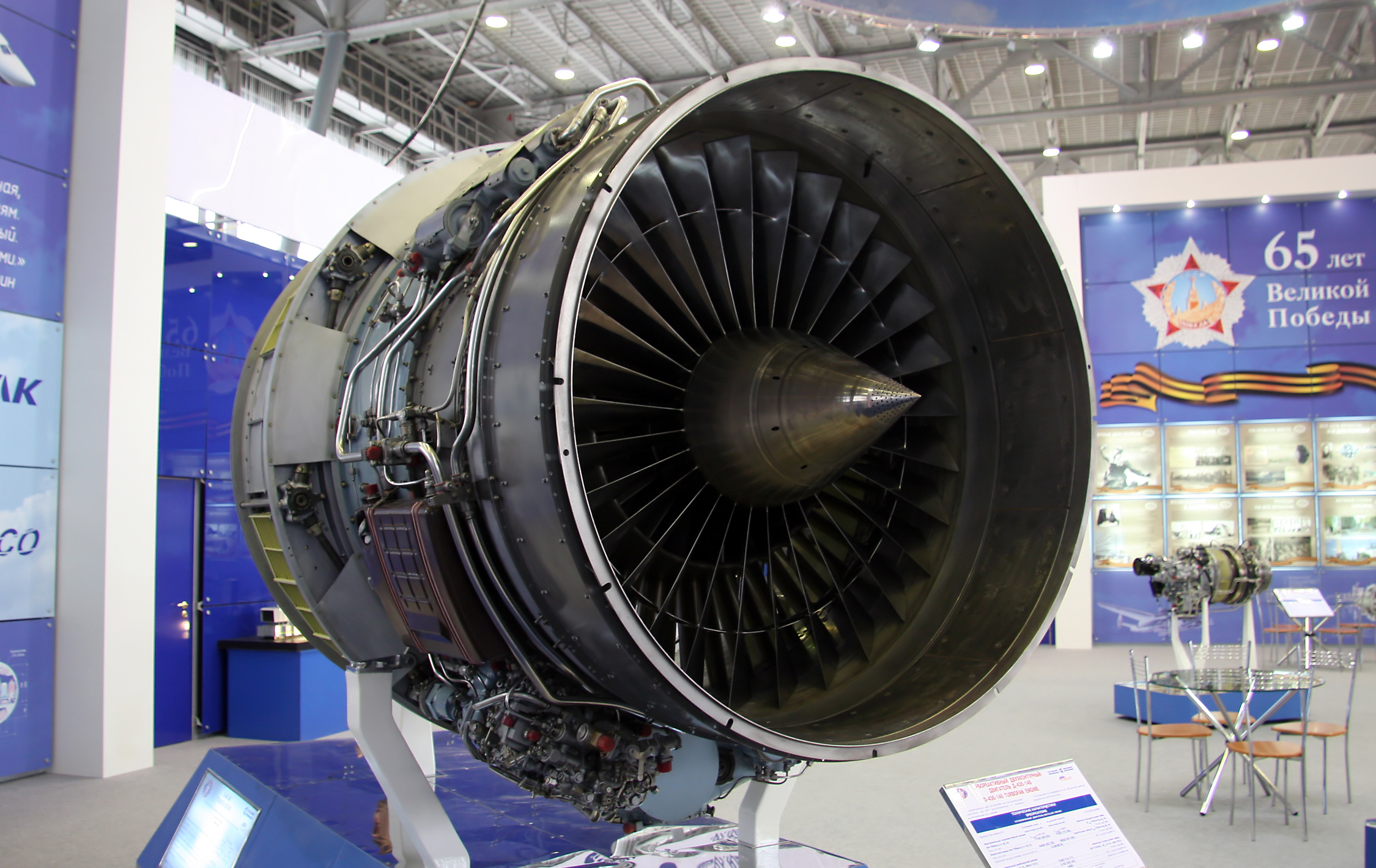 D-436-148 turbofan engine for An-148 at International salon Engines-2010 01